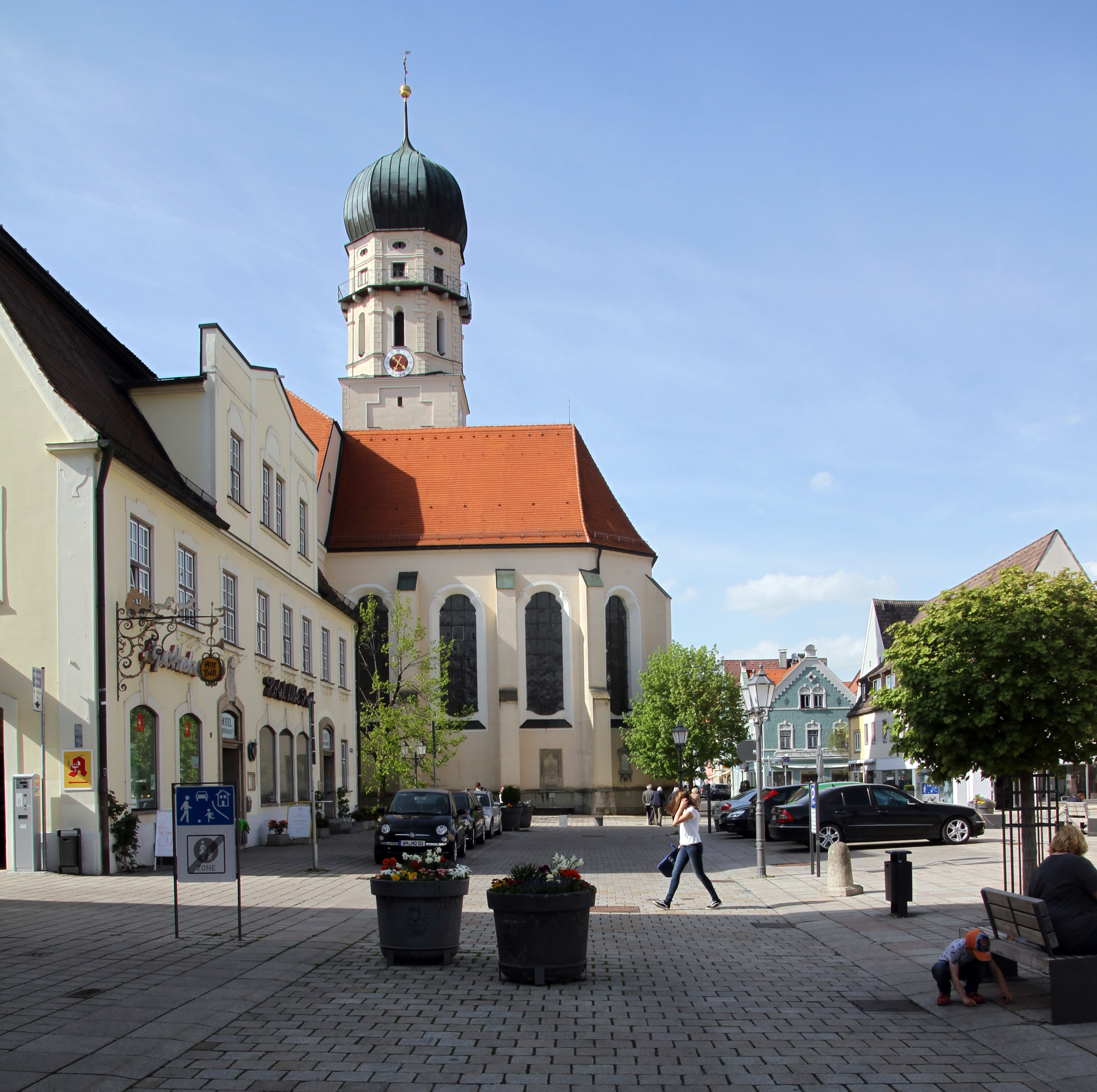 Church of Mariä Himmelfahrt (Schongau)